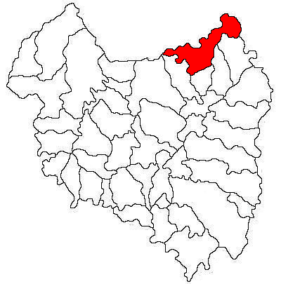 Locator map of Estelnic commune, Covasna County, Romania